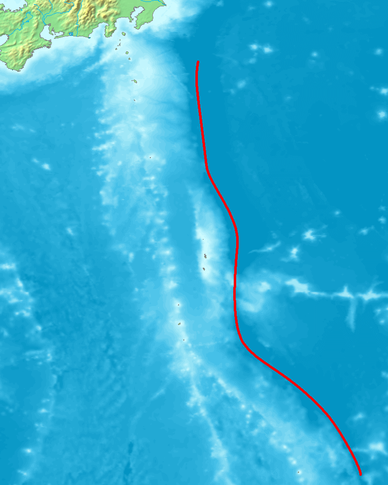 Map of the Izu-Okasawara(Izu-Bonin) Trench(a trench near the east of Izu Islands and Okasawara(Bonin) Islands).